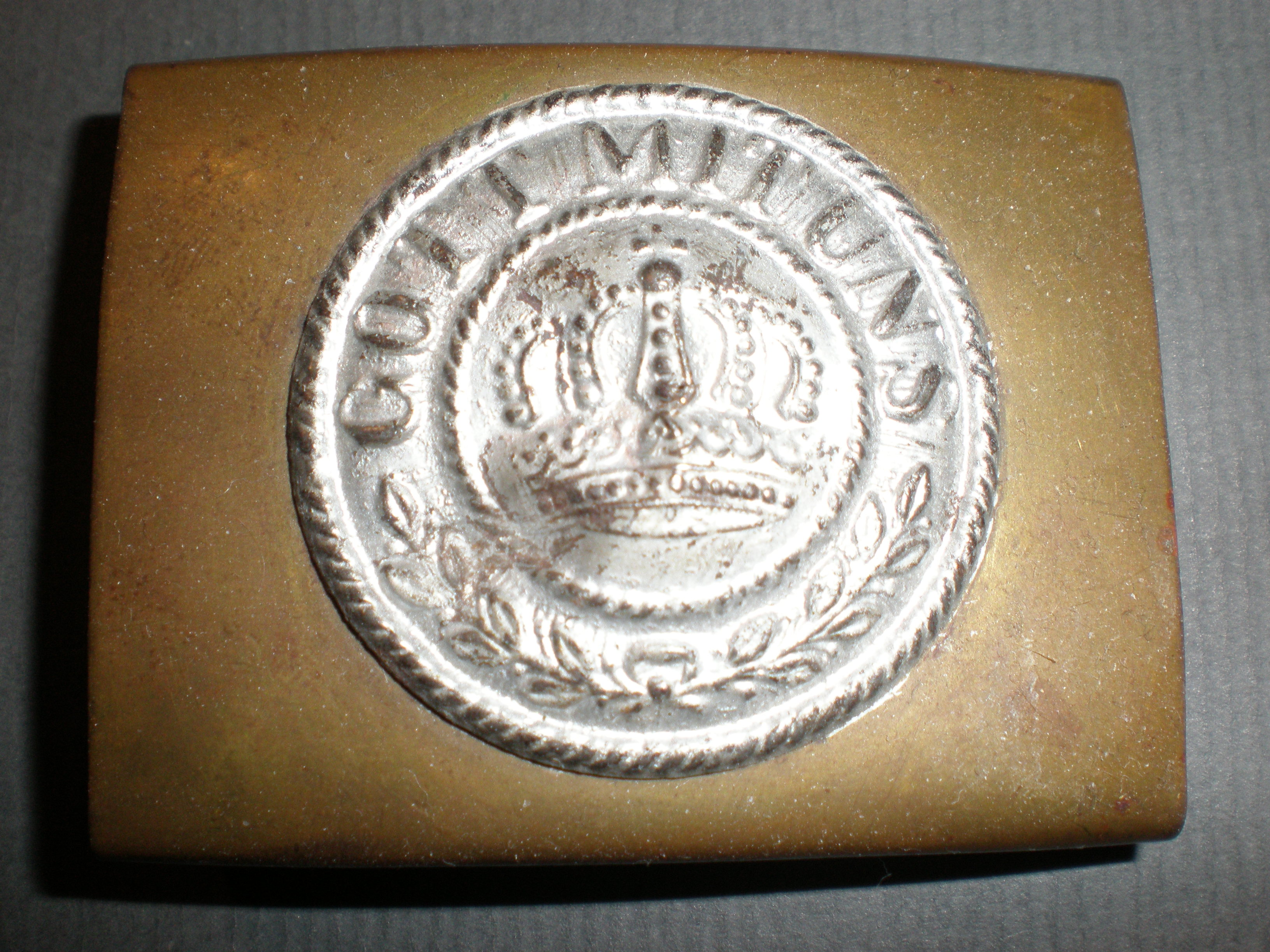 Kingdom of Prussia soldier belt buckle, World War I, front view Emblem recto center: Crown of Wilhelm II Motto recto top: Gott mit uns [God with us] Emblem recto bottom: laurel wreath